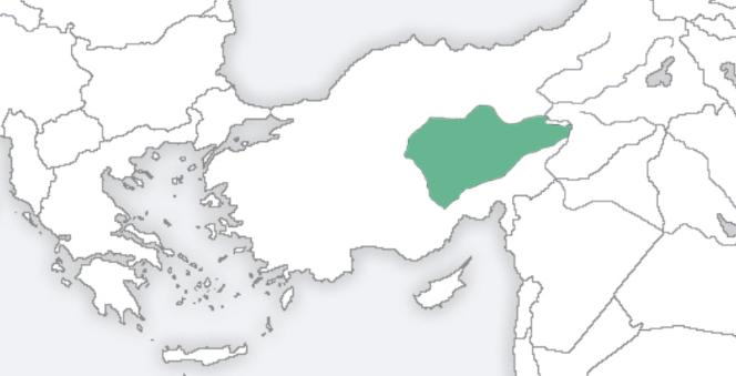 The region in green represents the ancient homeland of the Cappadocian Greek people. They lived in the historical region of Cappadocia until the early 20th century.